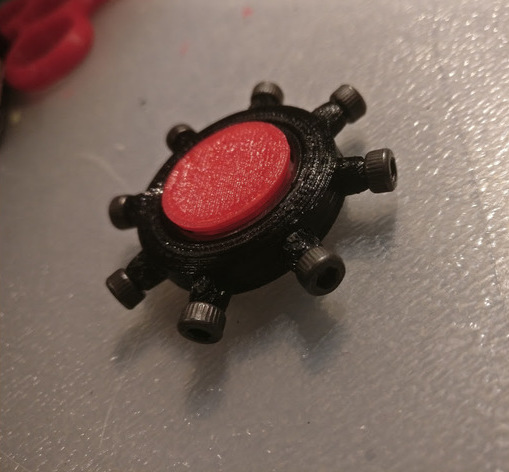 3D Printed single bearing spinner.